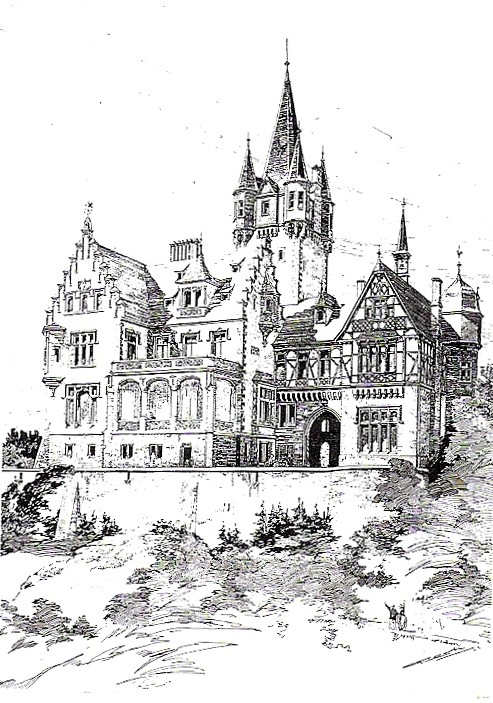 Villa Andreae in Königstein im Taunus (1899)